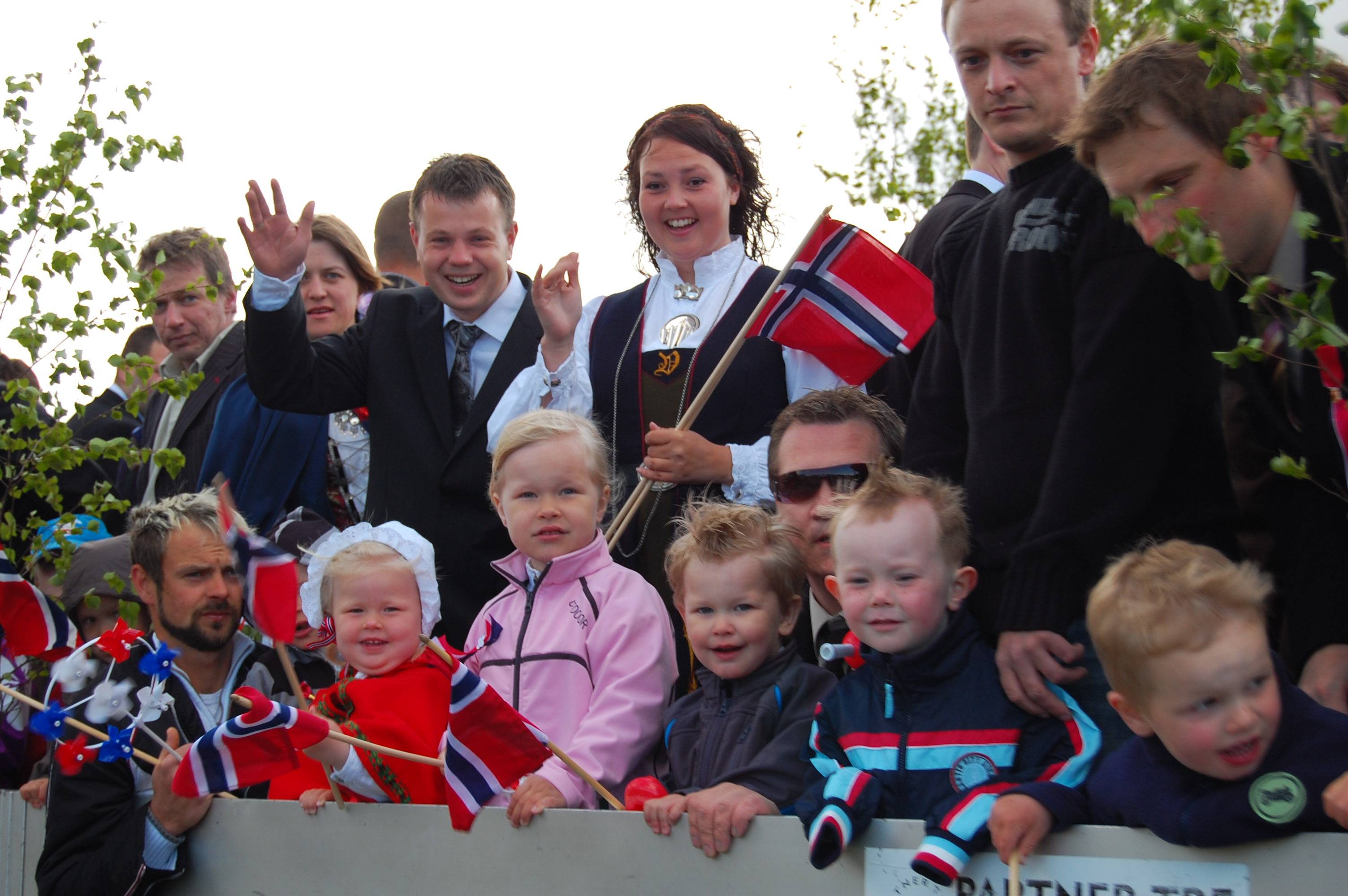 Kindergarten kids and parents on the back of a truck on Norway's constitution day.